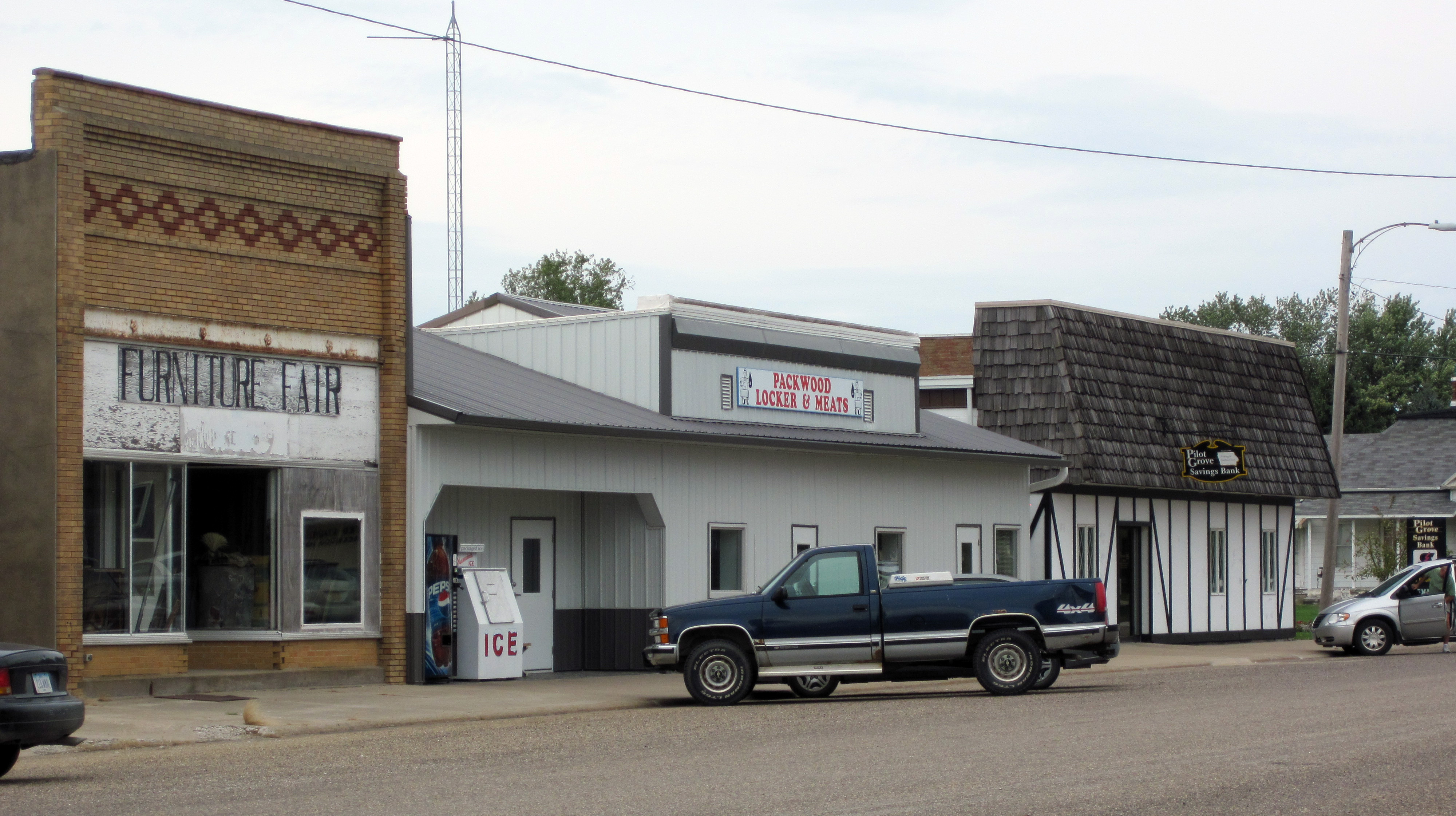 Packwood